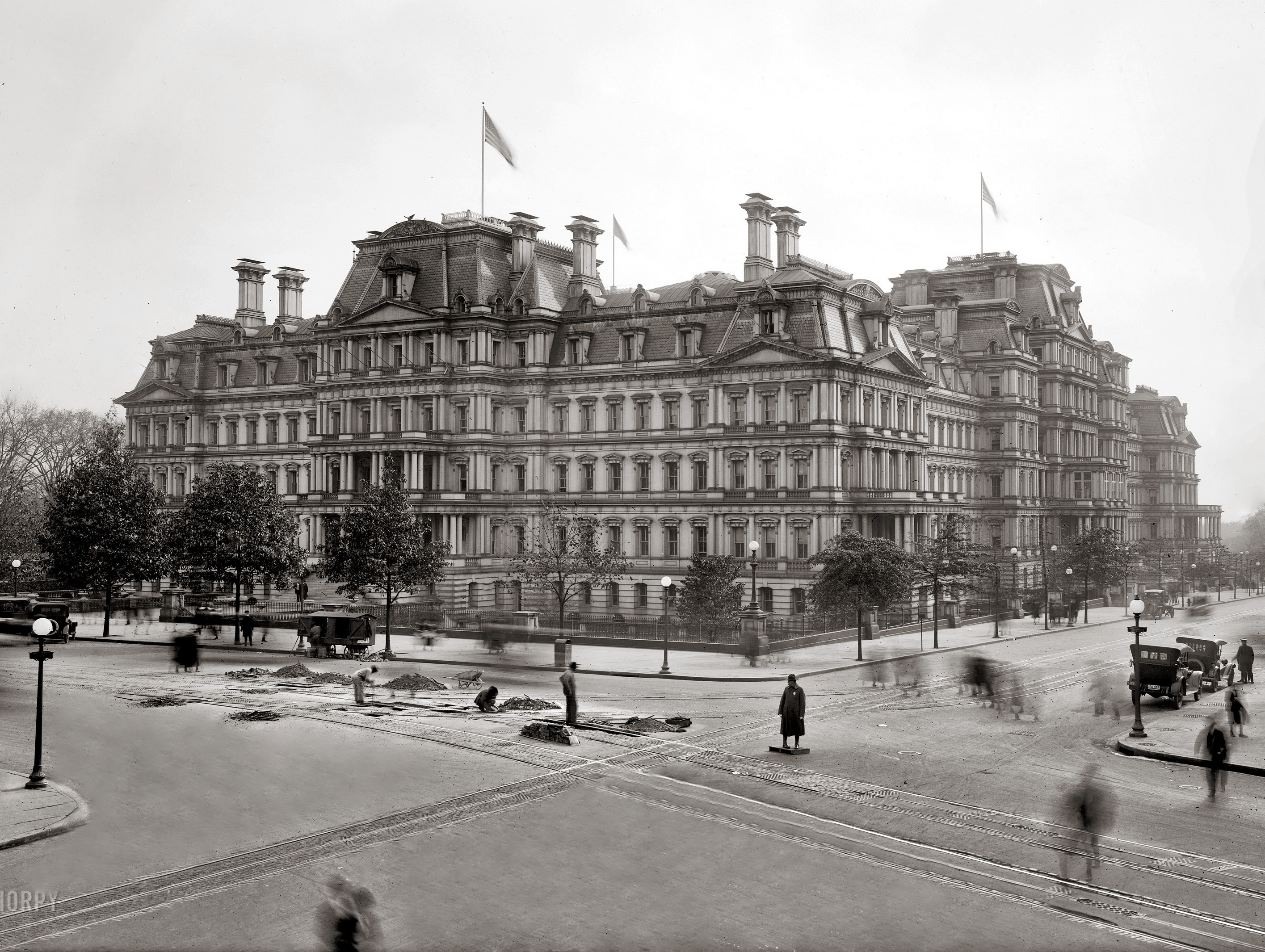 The State, War, and Navy Building (also known as the Old Executive Office Building or Eisenhower Executive Office Building) located at Pennsylvania Avenue and 17th Street, NW in Washington, D.C. The building, an example of French Second Empire architecture, was constructed in 1871 and designed by Alfred B. Mullett. It was designated a National Historic Landmark in 1969.